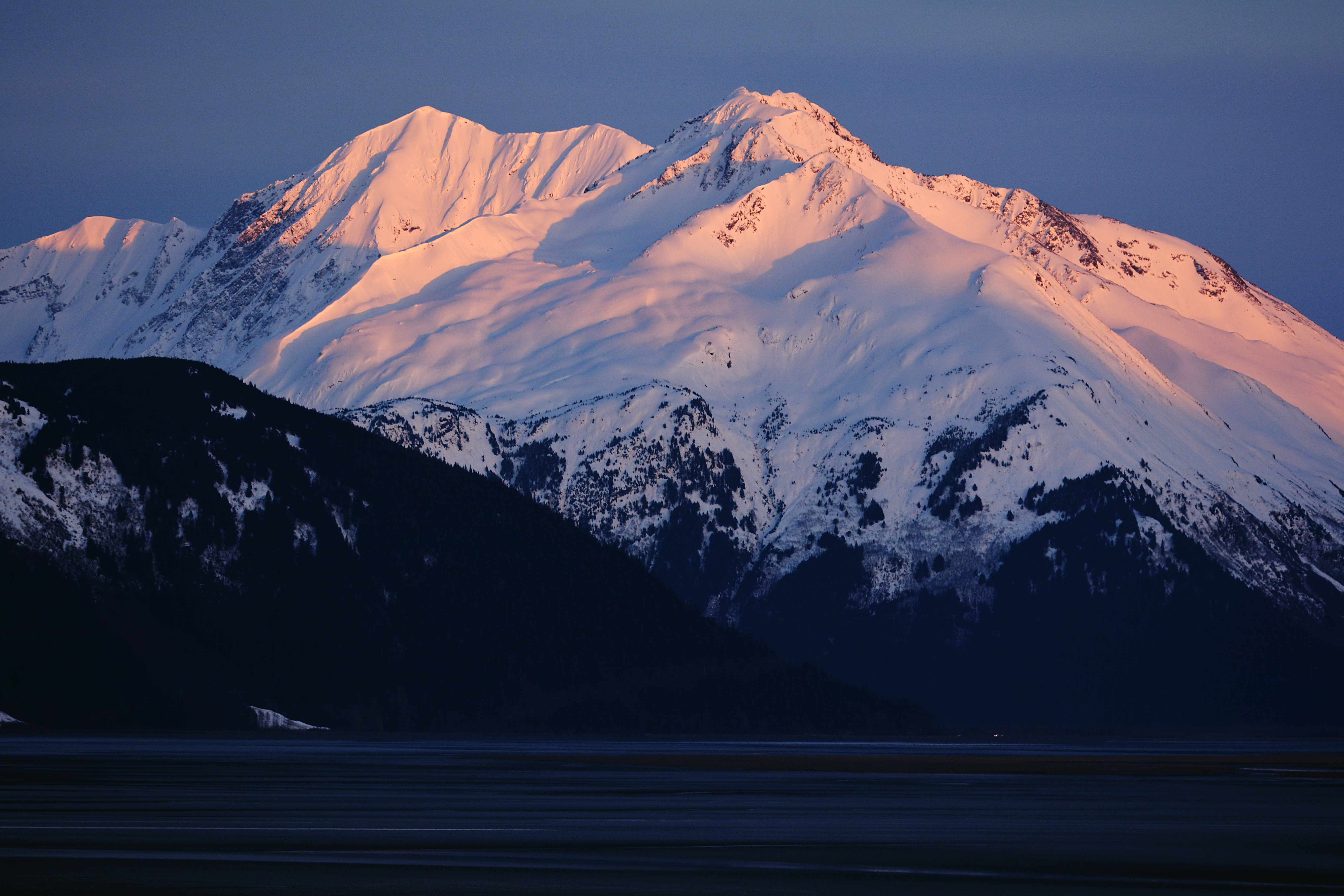 Boggs Peak and Begich Peak rise above the far end of Turnagain Arm. Photographed from the bike path that follows the Seward Highway.